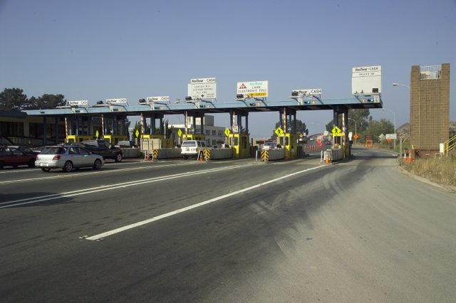 Richmond San Rafael Bridge Resurfacing 10-10 & 11-06, Caltrans District 4 Photography Set #7916d